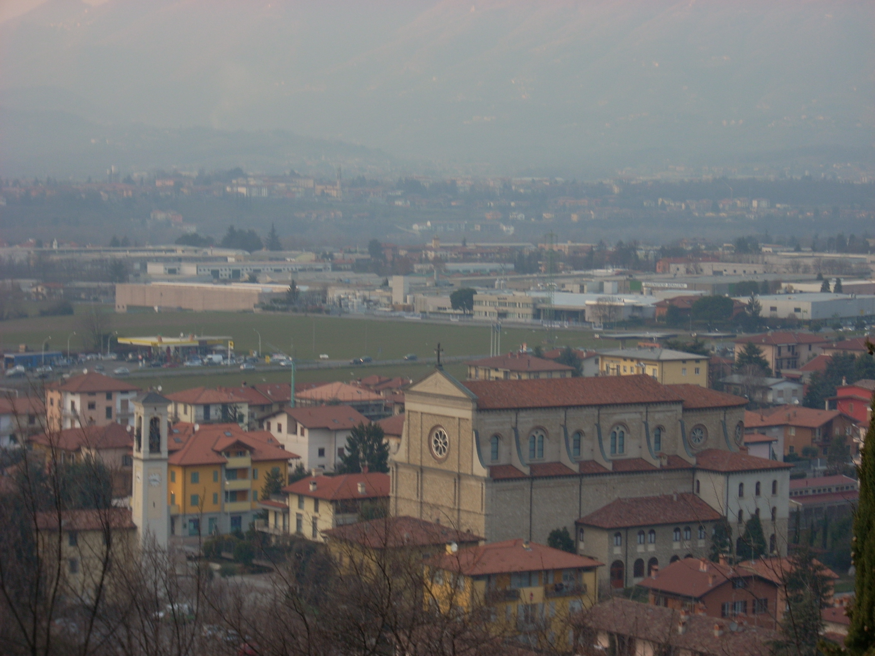 Panoramic view of Mozzo, Bergamo, Italy